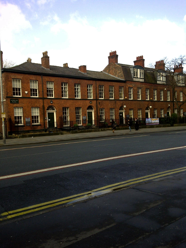 Waterloo Place, 176-188 Oxford Road; including Student Health Centre, Chorlton-on-Medlock